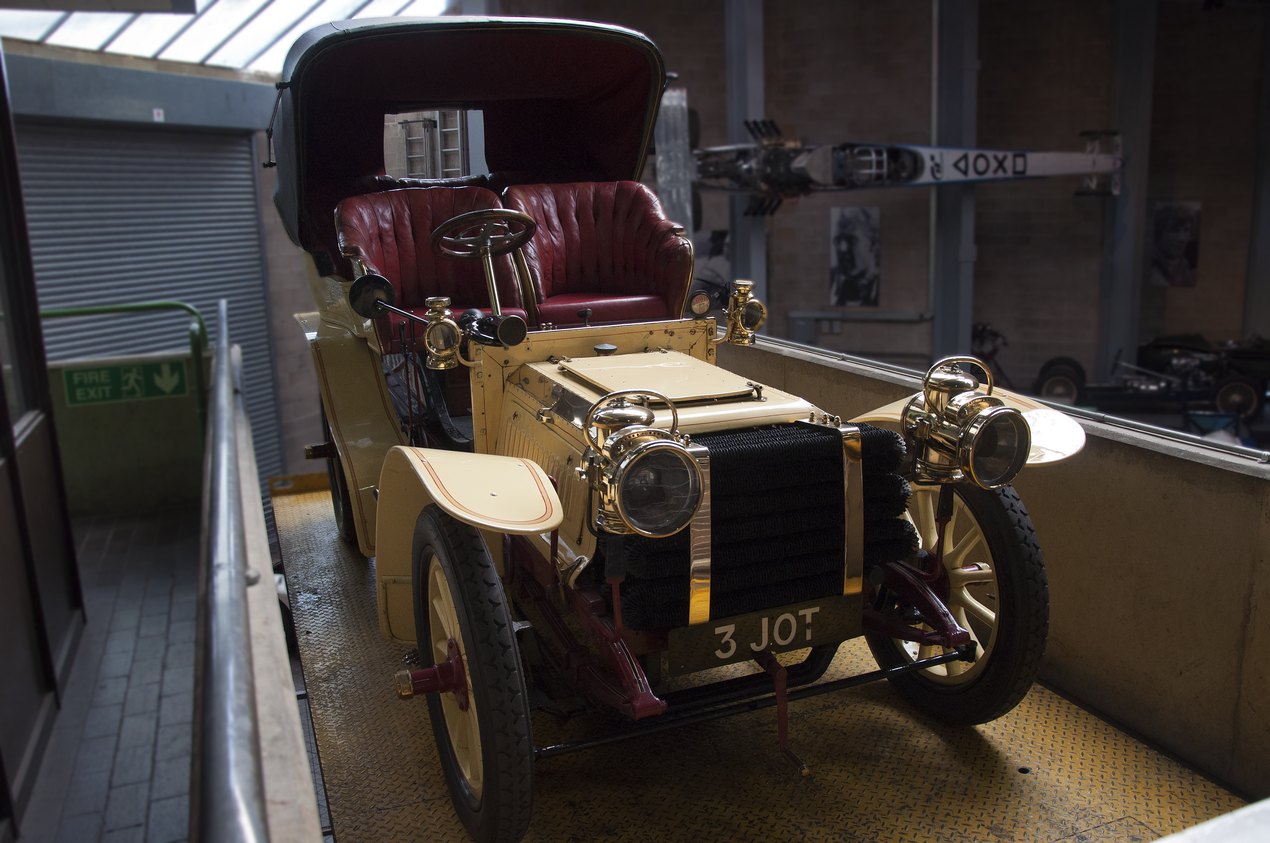 De Dietrich 24HP (1903) at the National Motor Museum, Beaulieu, England